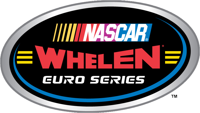 NASCAR Whelen Euroseries logo